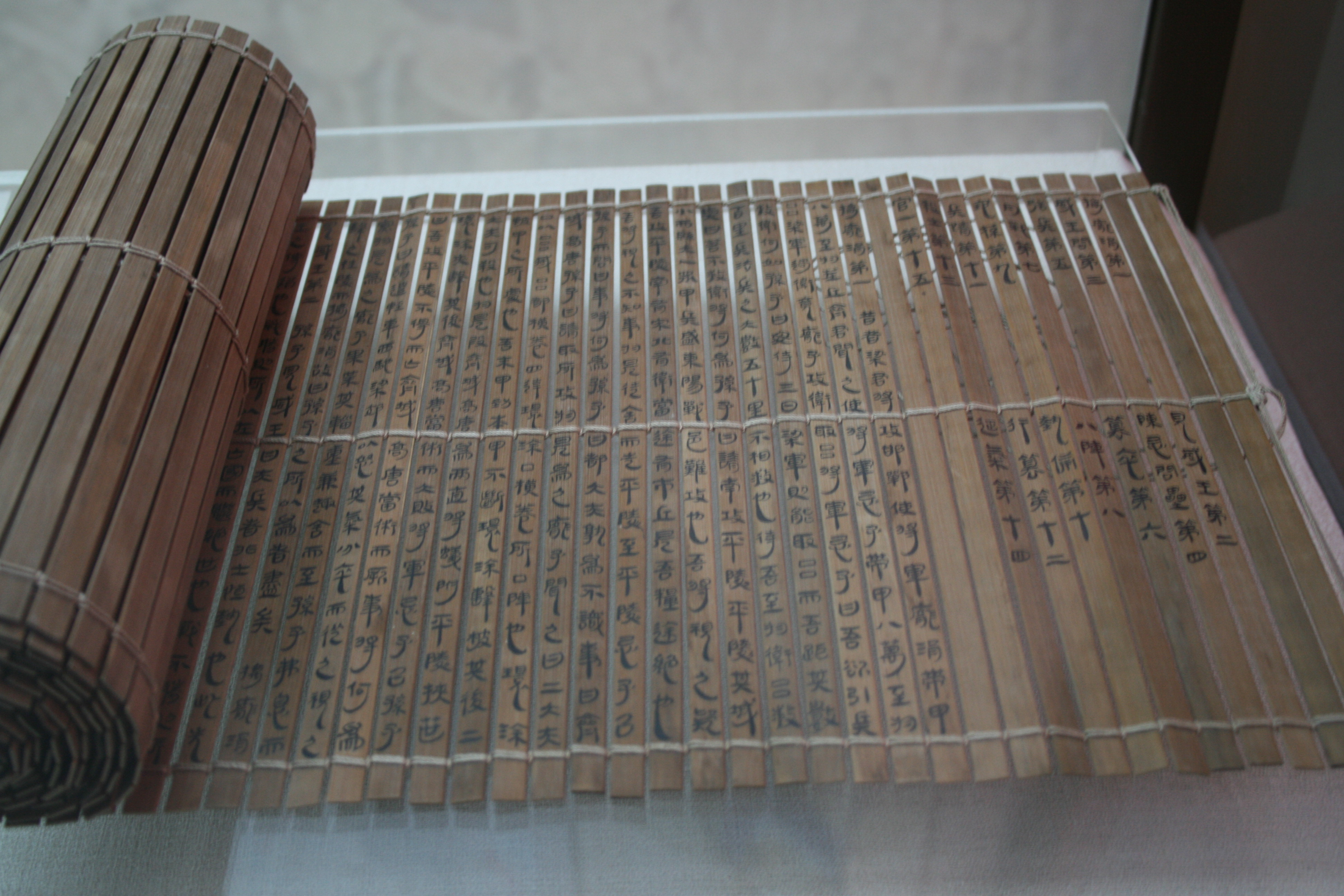 Han Tomb, Shandong. Military Museum: Ancient Weapons special exhibit